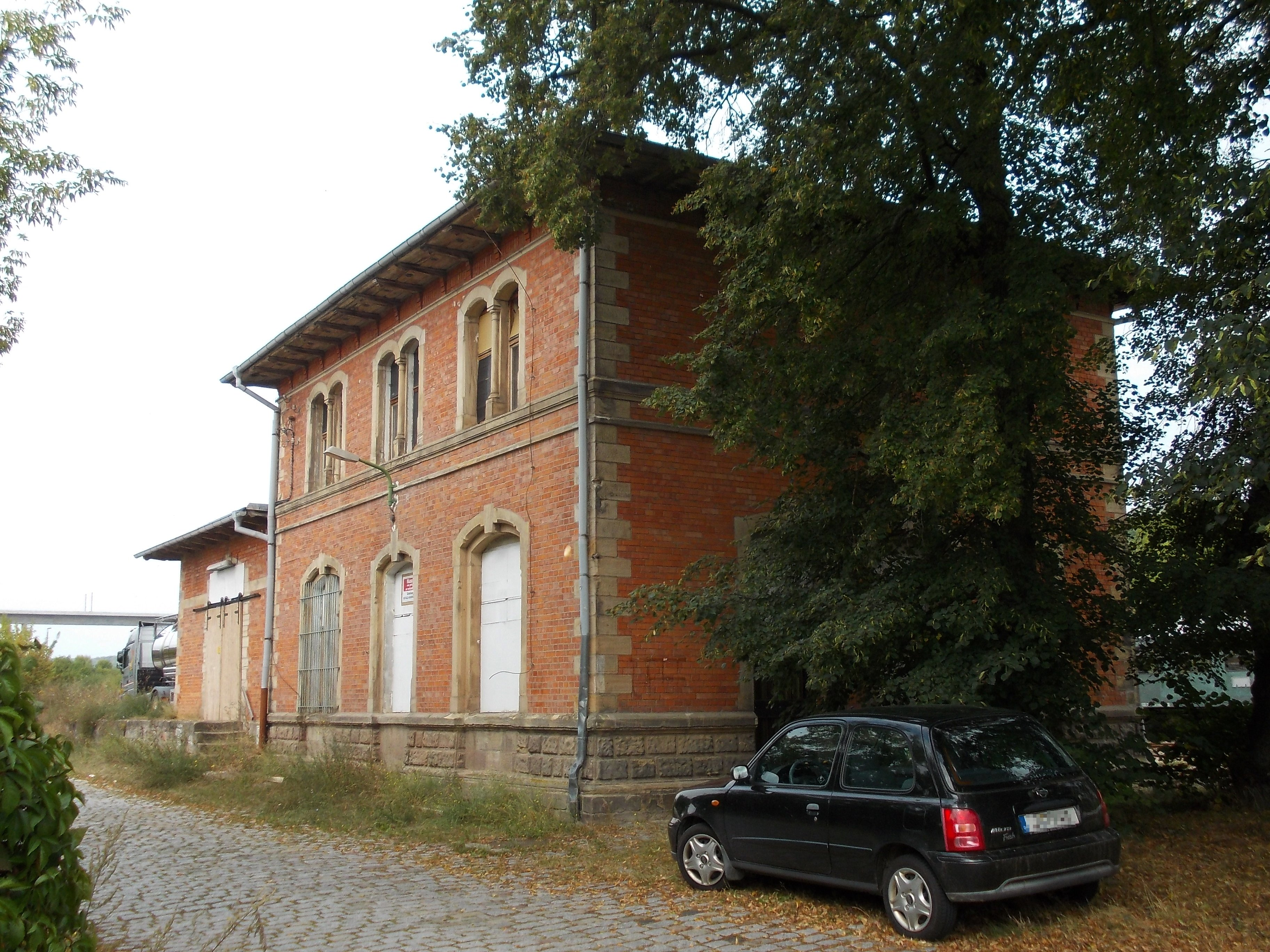 The old train station of Karsdorf (district: Burgenlandkreis, Saxony-Anhalt)